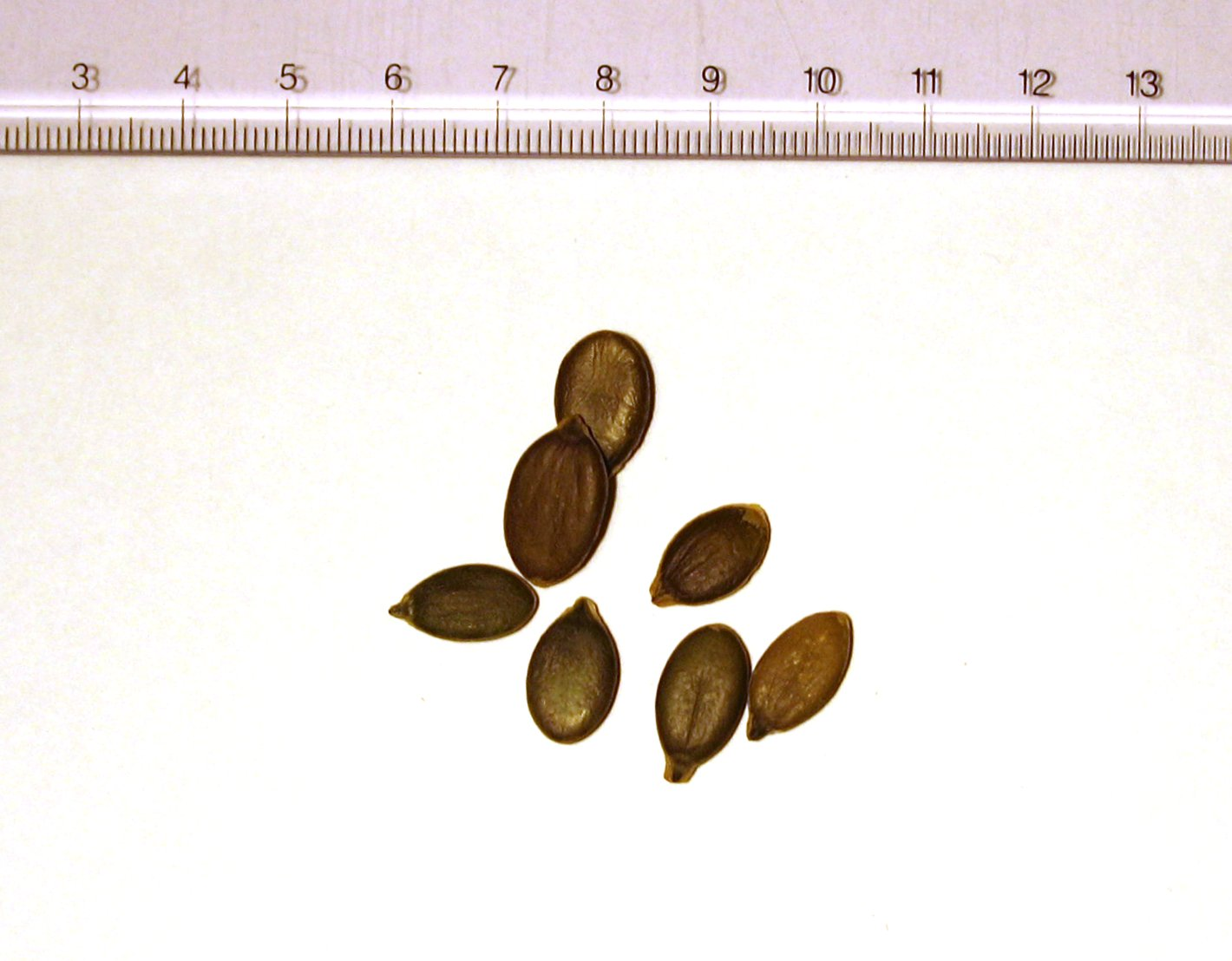 Pumpkin seeds with a ruler